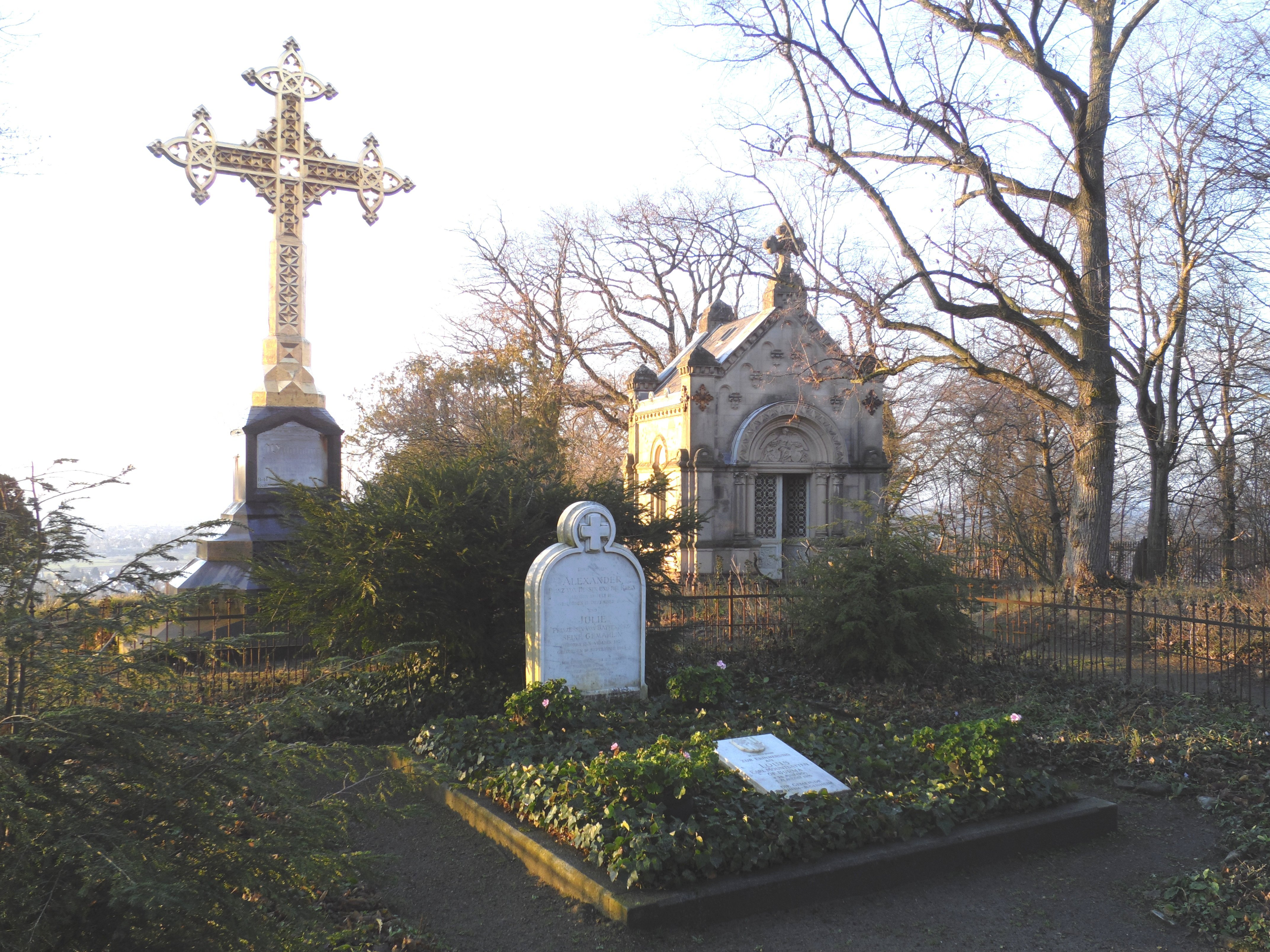 Crossgarden on Heiligenberg near Jugenheim; Golden Cross in memory of Grand Duchess Wilhelmine, Battenberg/Mountbatten Memorial Chapel and grave of Prince Alexander of Hesse and his wife Princess Julia Battenberg.